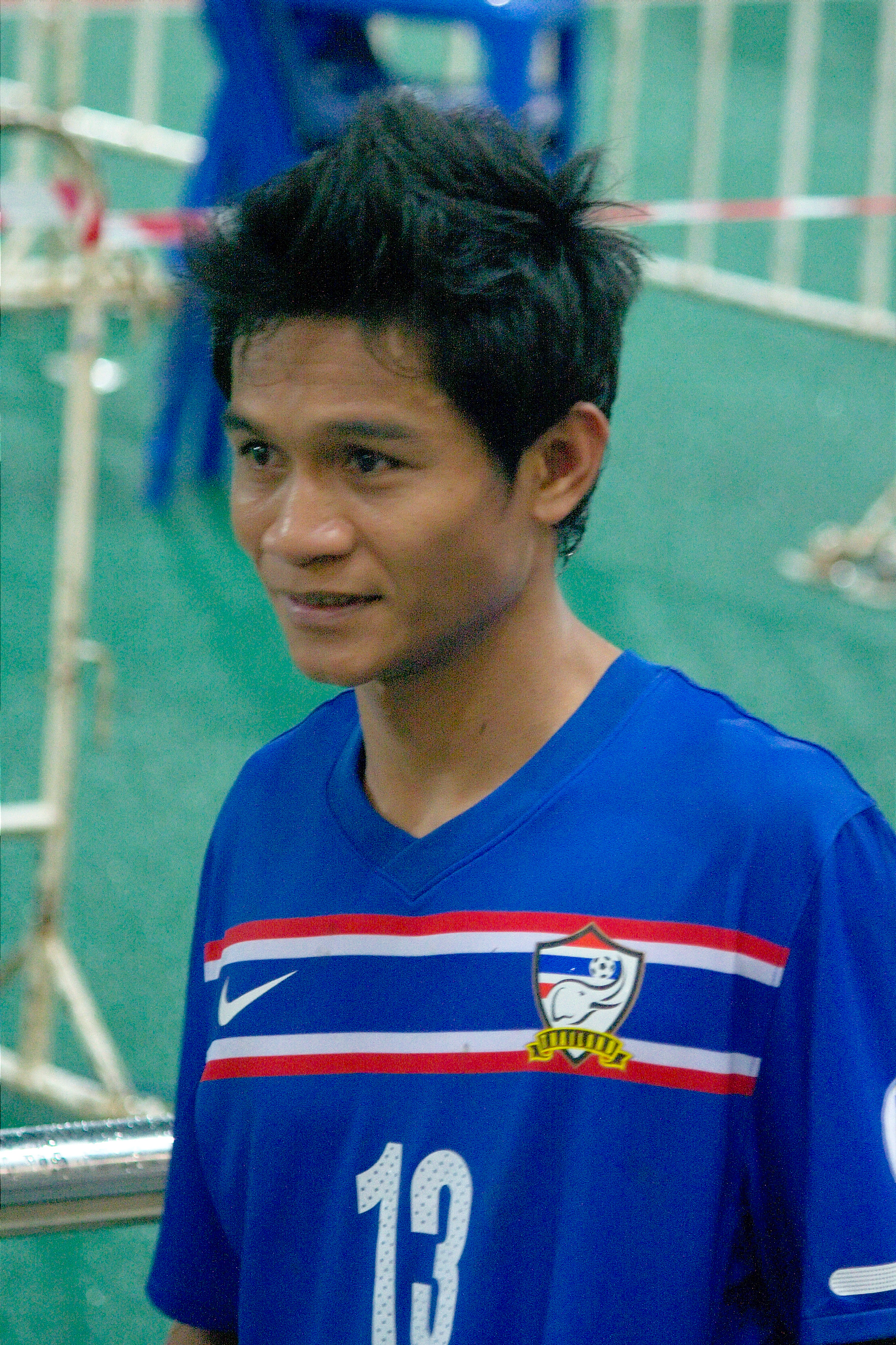 Thailand's Chatree Chimtalay after the World Cup 2011 third round qualifying match against Oman at Rajamangala Stadium